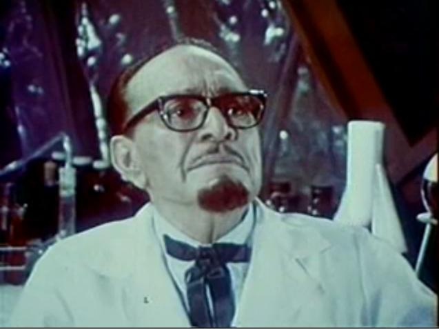 A screenshot from Dracula vs. Frankenstein